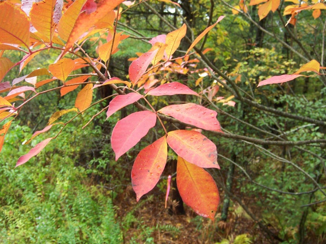 Ovate leaves with entire margins. Pinnately compound. Red stems.